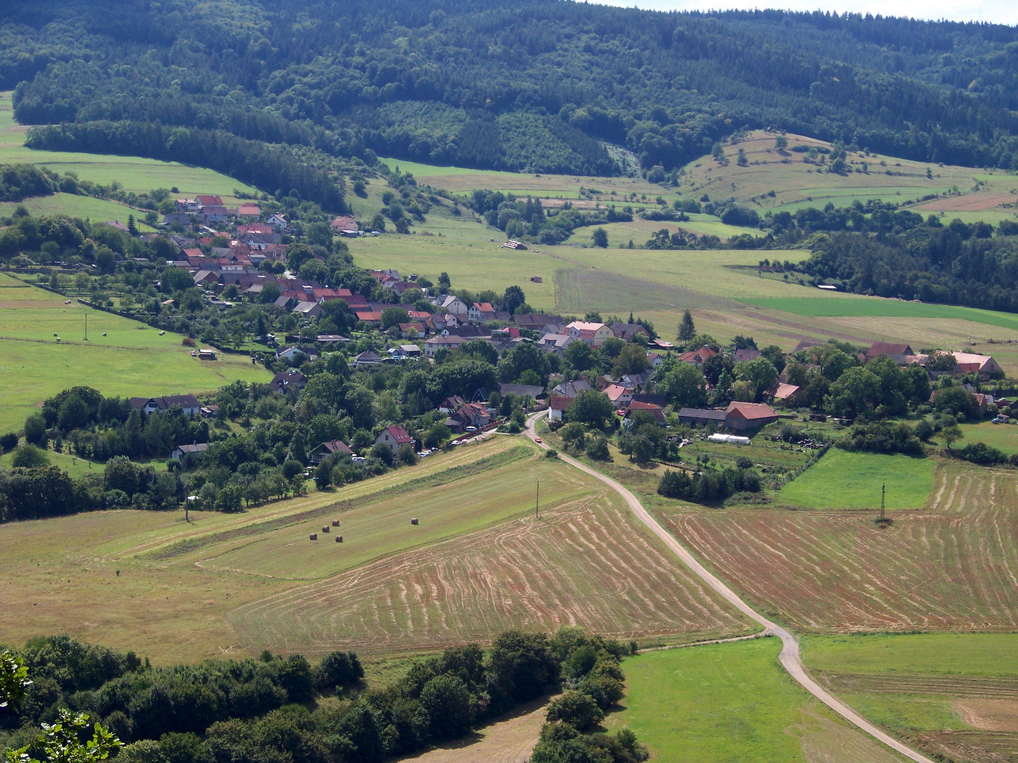 Branov, Rakovník District, Central Bohemian Region, the Czech Republic. Views from Nezabudice Rocks. - Google Maps - Google Earth